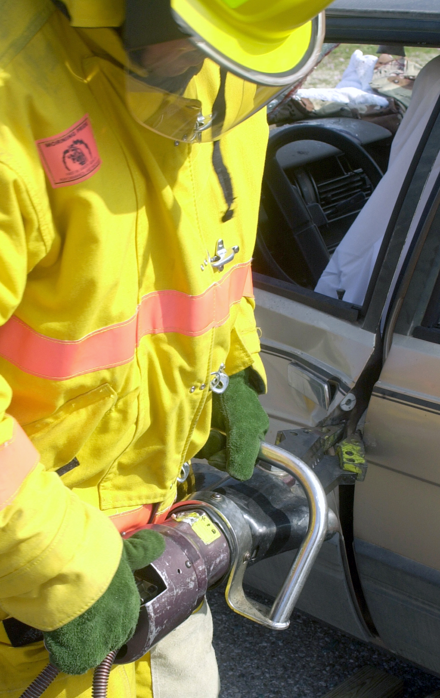 Naval Station Rota, Spain (Feb. 12, 2003) -- A firefighter uses the “Jaws of Life” to cut open a car door during a mass casualty drill that simulated a multi-vehicle accident. U.S. Navy photo by Journalist 1st Class Ralph Radford. (RELEASED)